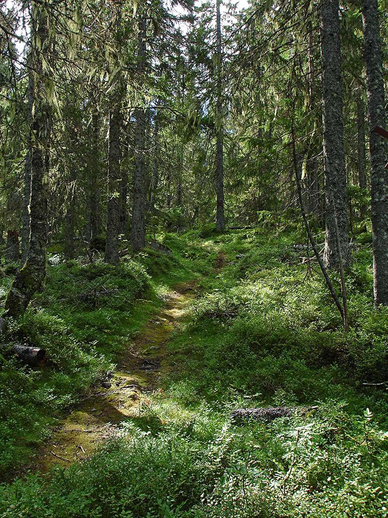 Path through the forest on the eastern side of Mount Västanåhöjden, Nätra fjällskog, Örnsköldsvik Municipality, Sweden.